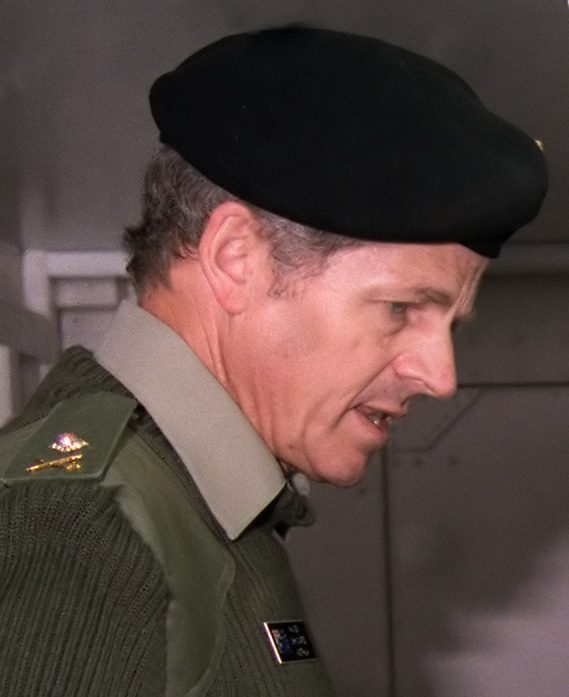 John Coates (general), cropped from DA-SC-90-07037. A US Army captain explains the functions of a training device to Australian Defence Attache Major General H.J. Coates during a tour to the US Army Armor Center in 1985. Location: FORT KNOX